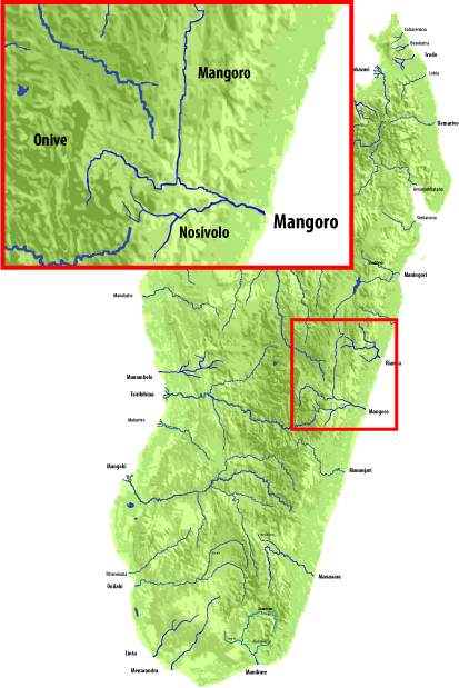 Description of river Mangoro